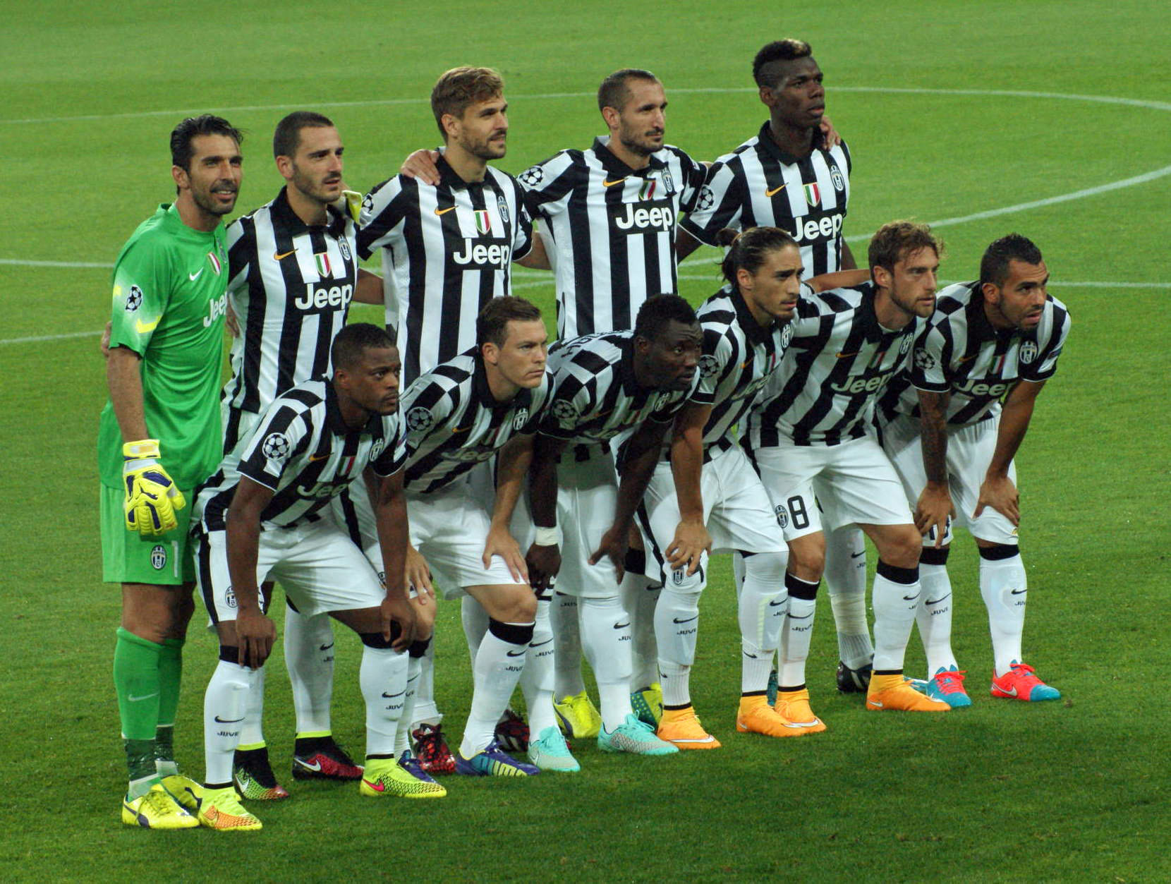 Turin, Juventus Stadium, September 16, 2014. Juventus FC line-up versus Malmoe FF in the 2014-15 UEFA Champions League group stages.